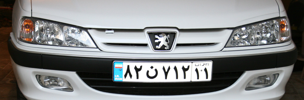 Peugeot Pars, the facelifted Peugeot 405.